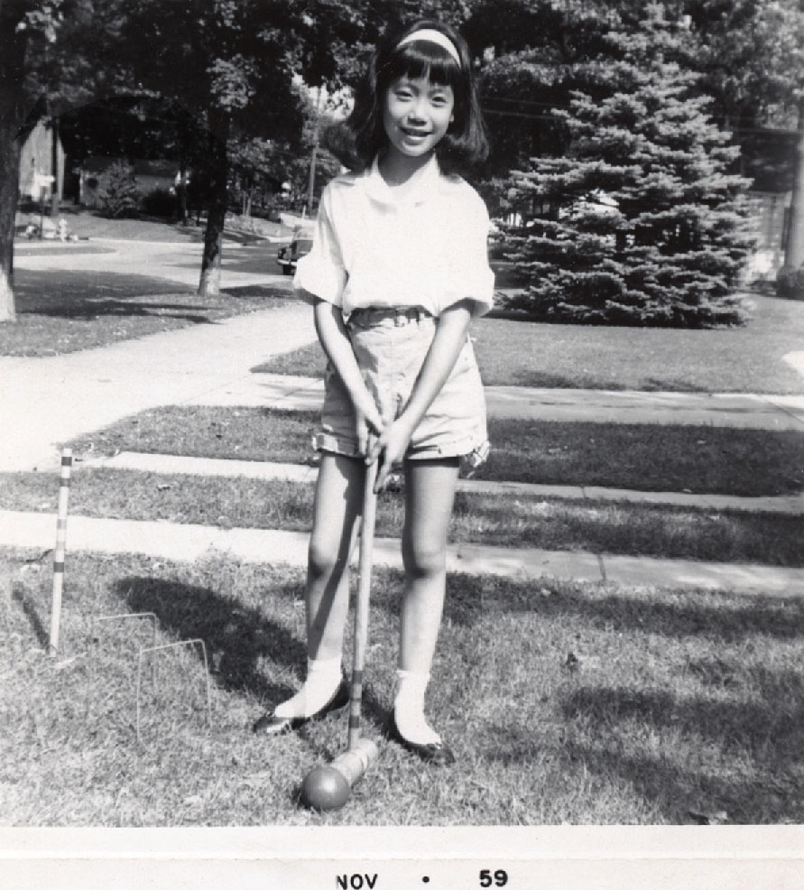 Nancy Wong plays croquet in Grand Rapids, Michigan, 1959